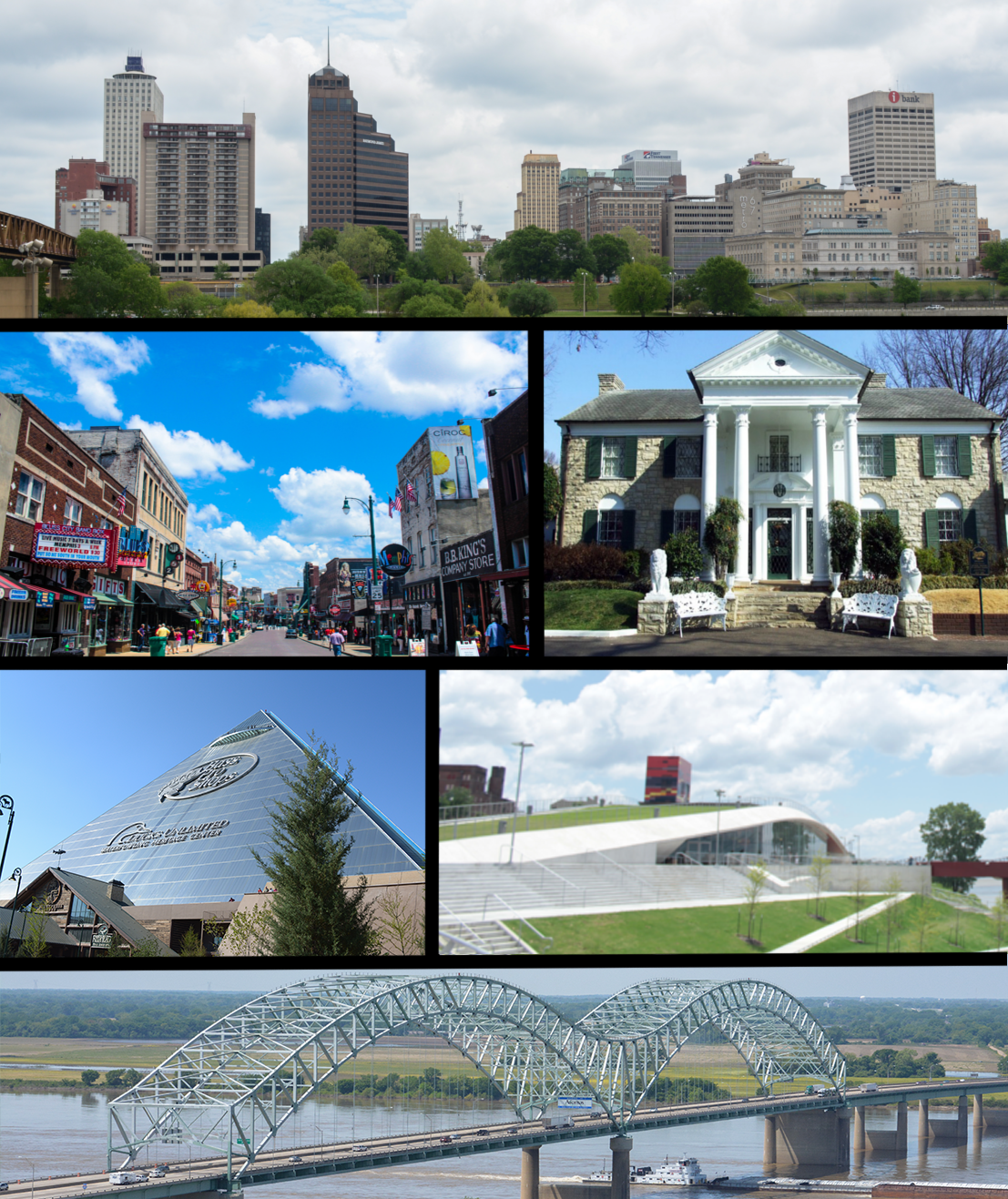 Collage of photos around Memphis, Tennessee